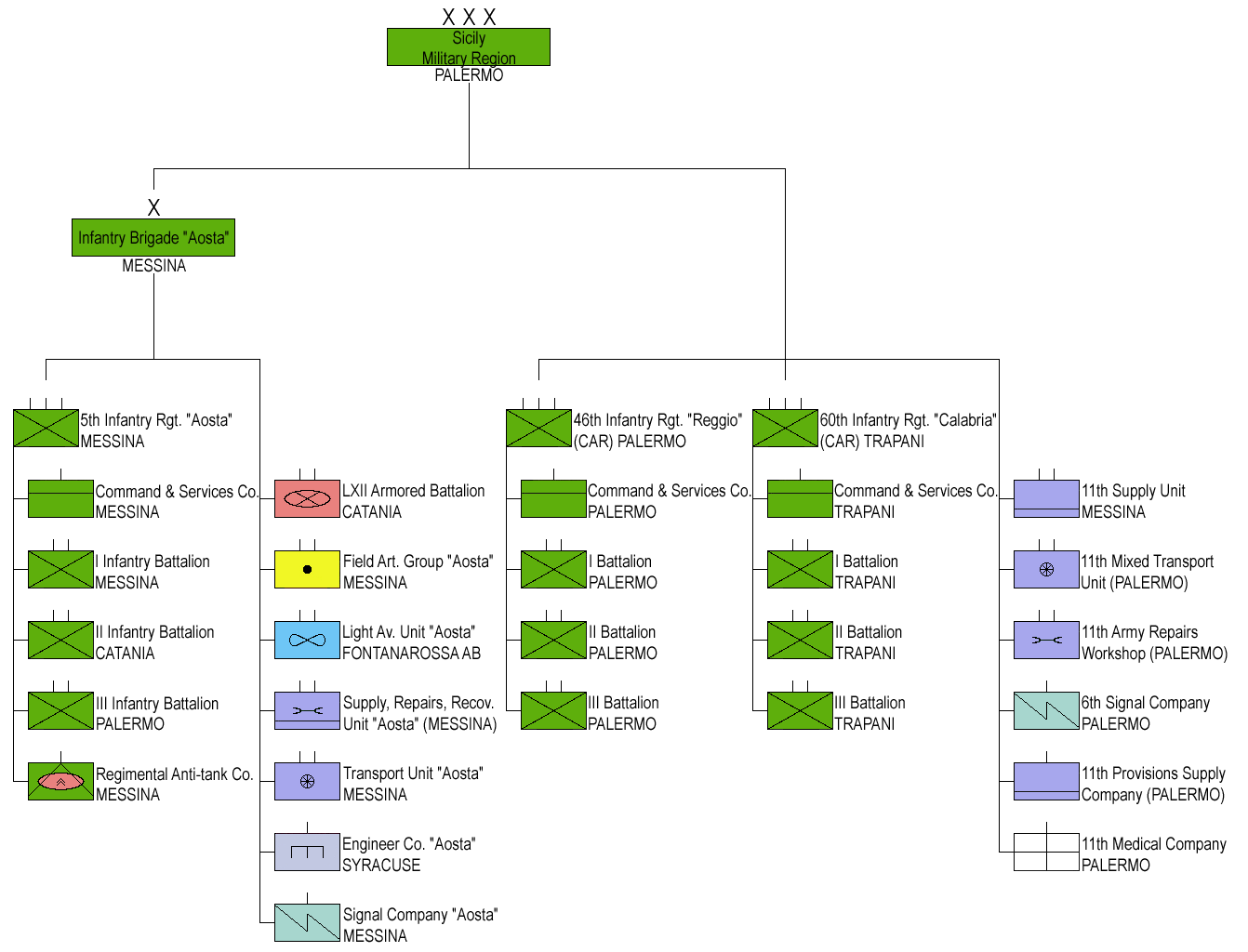 Structure of the Italian Army's Sicily Military Region in 1974